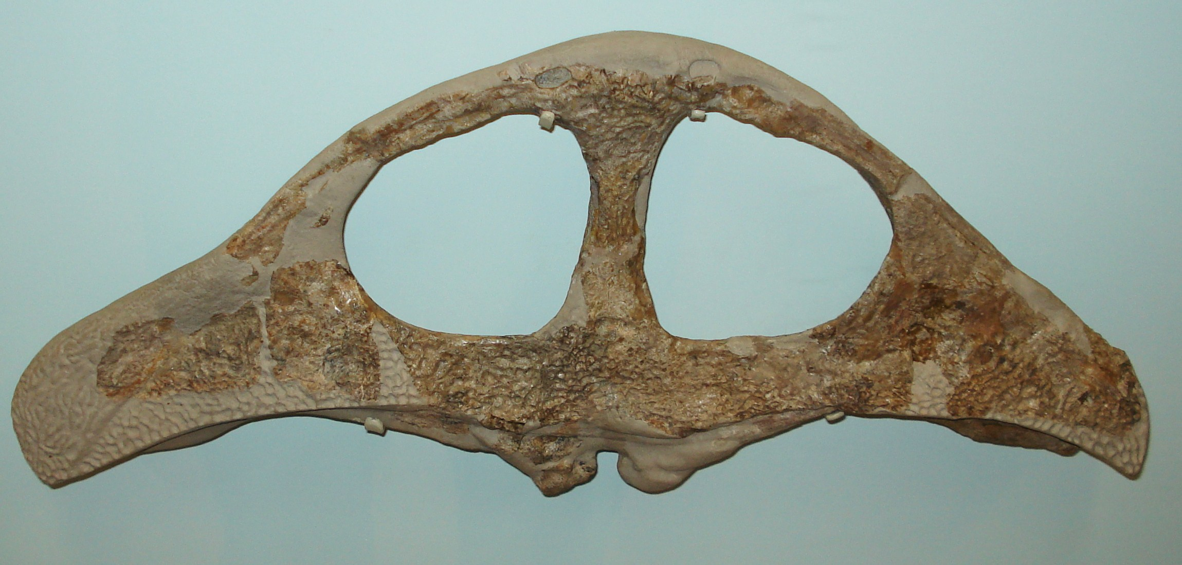 fossil of plagiosternum